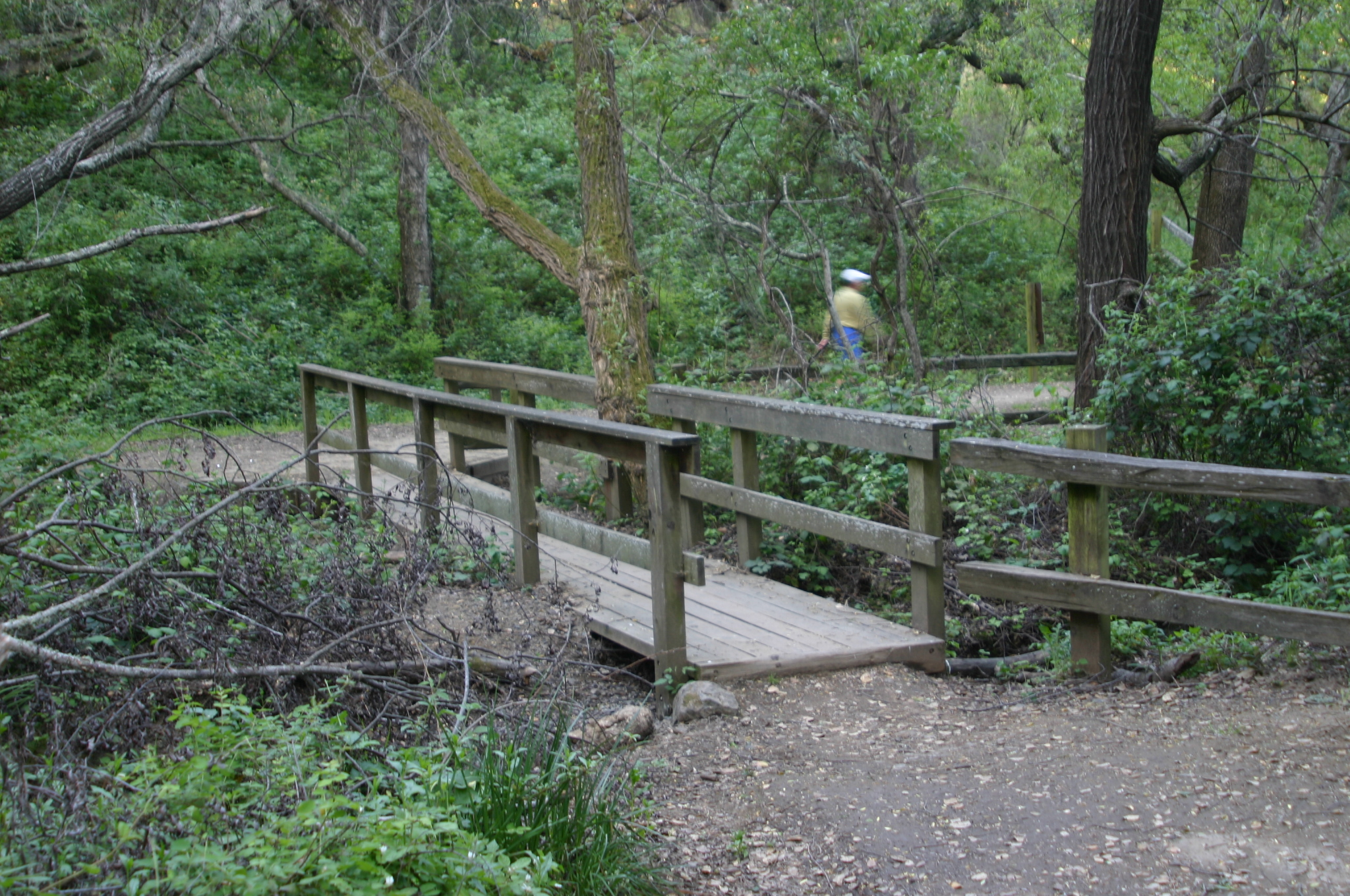 Footbridge on trail, in Pulgas Ridge Open Space Preserve — San Mateo County, San Francisco Bay Area, California. Part of the Midpeninsula Regional Open Space District system.